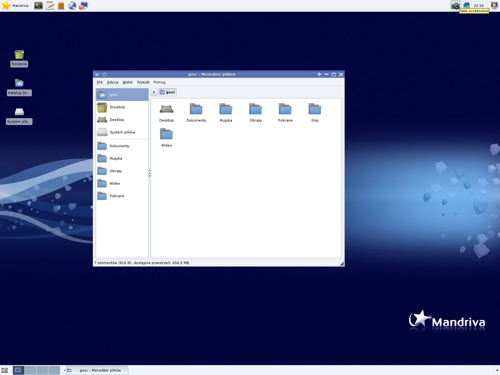 Xfce environment under Mandriva 2008.1 Spring